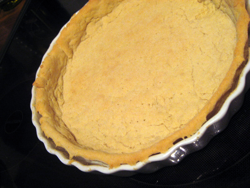 A blind-baked pie crust.